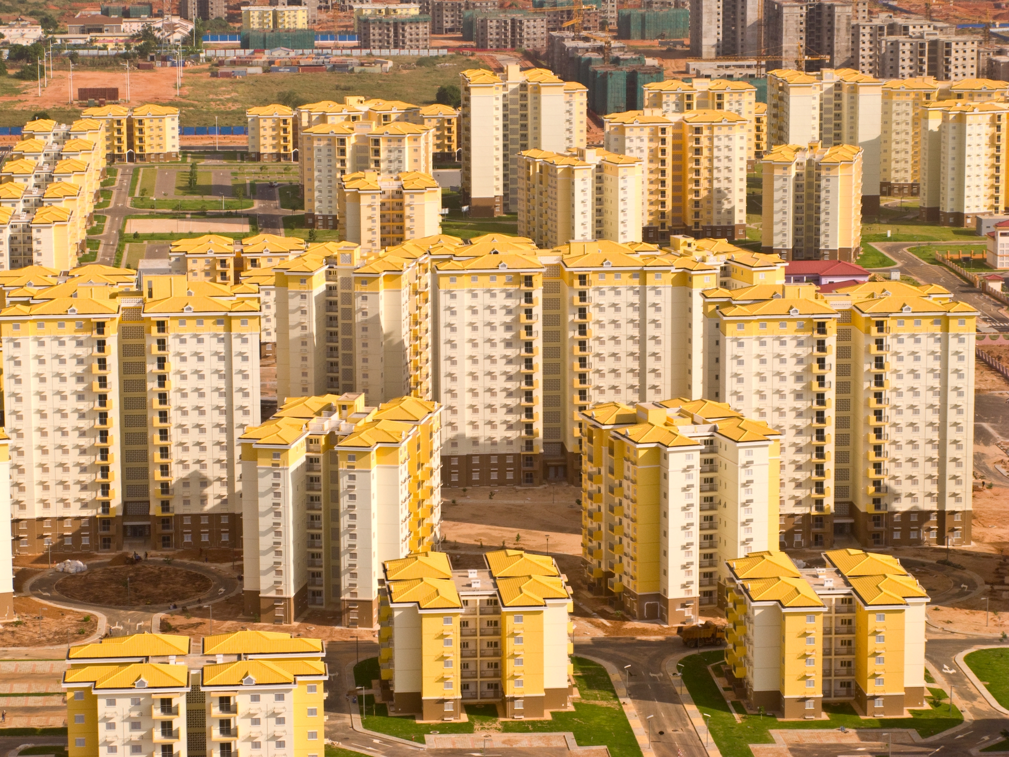 The new city of Kilamba in Luanda Province